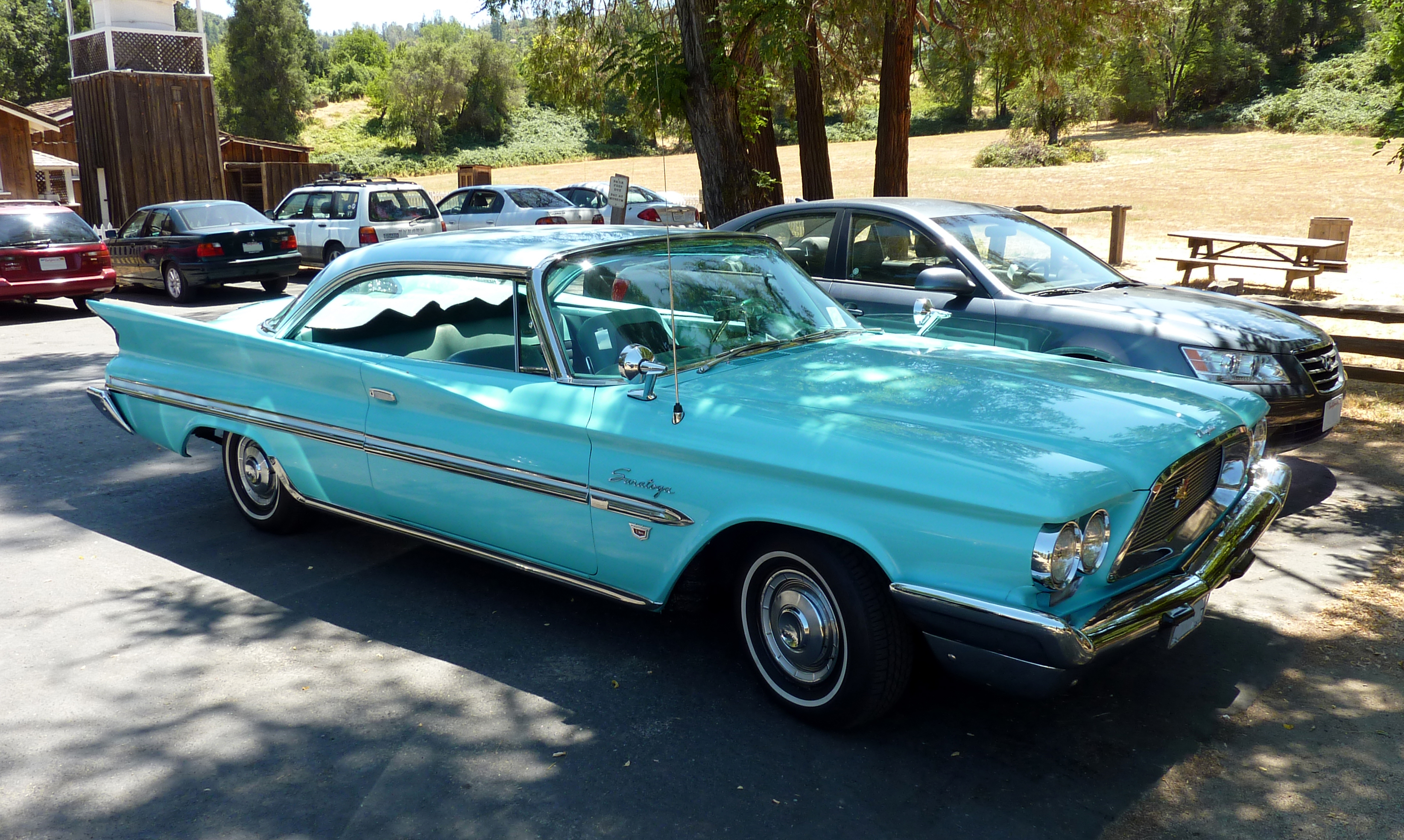 Chrysler Saratoga, photographed at Sutter's Mill, California, USA.